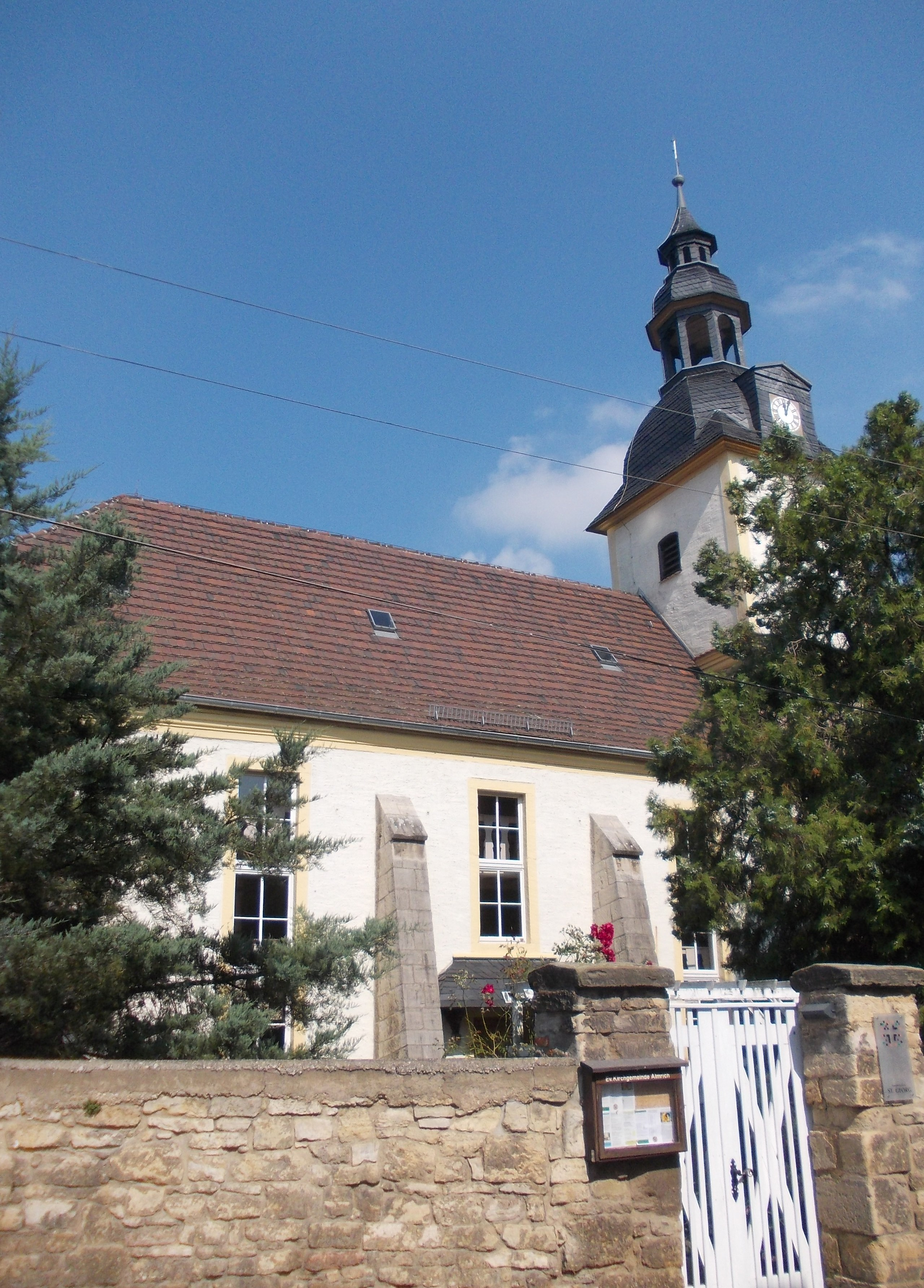 St. George's Church in Almrich (Naumburg, district: Burgenlandkreis, Saxony-Anhalt)